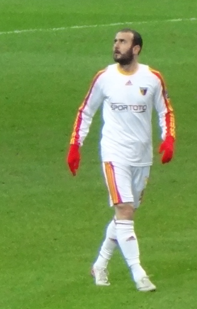 Gökhan Ünal playing against Galatasaray